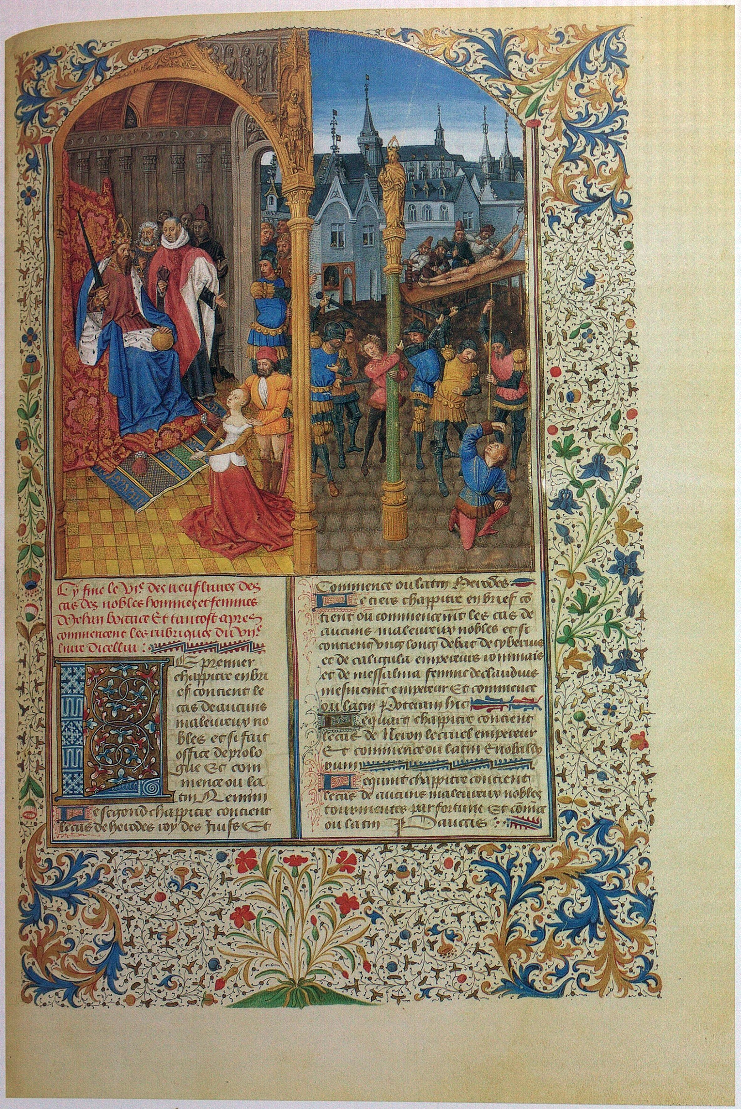 A page of a manuscript of an anonymous French translation (made in 1401) of Boccaccio’s „De mulieribus claris“. The miniature (by Colin d’Amiens?) shows (left) King Herod the Great with his wife Mariamne before her execution. Manuscript: Geneva, Bibliothèque Publique et Universitaire, Ms. 191, fol. 221r.